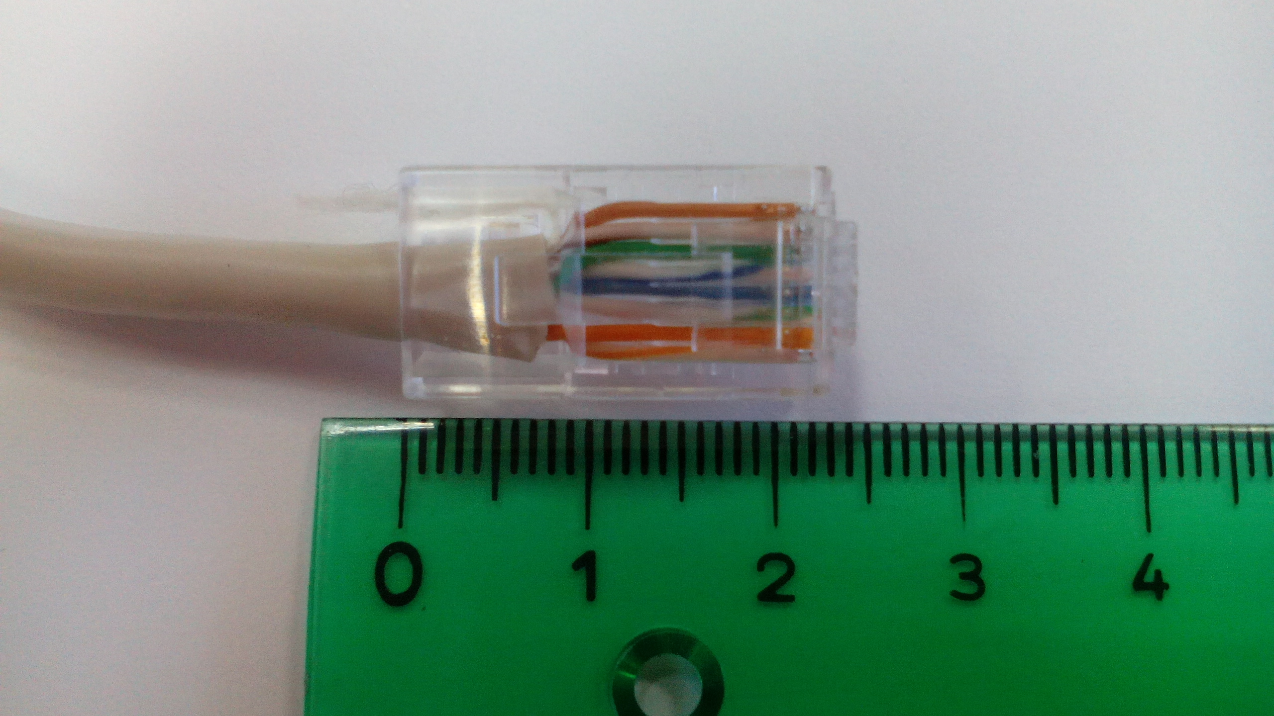 Photo of an RJ-45 connector near to a ruler to view the size.